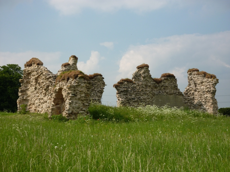 King John's Palace, Clipstone, Nottinghamshire viewed from the south-east